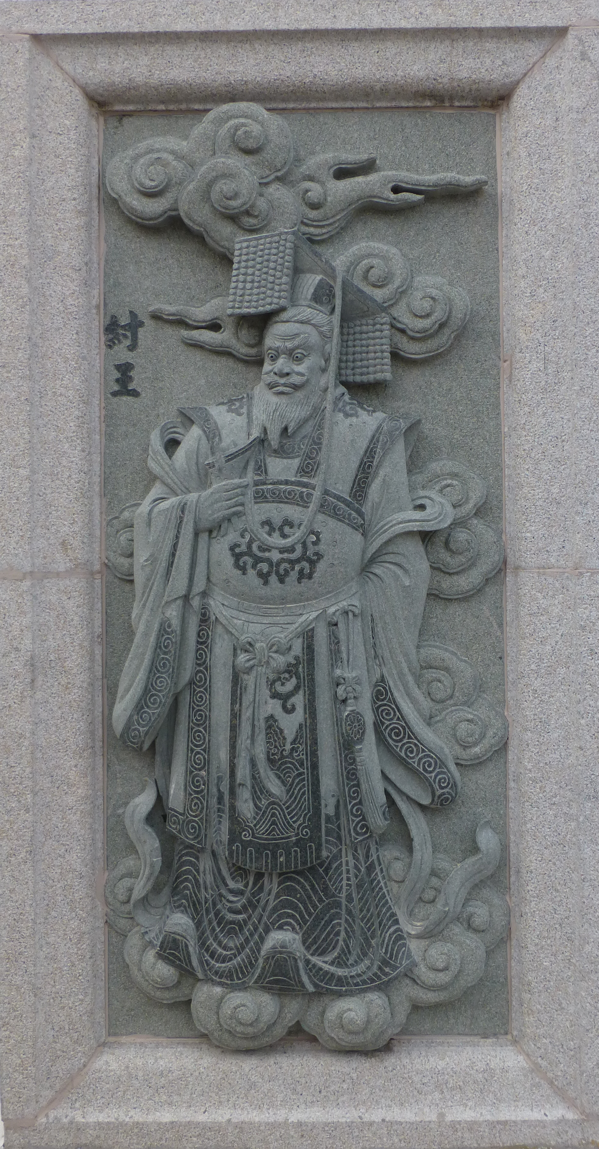 030 Zhou wang, King Zhou of Shang, Investiture of the Gods at Ping Sien Si, Pasir Panjang, Perak, Malaysia Photograph from the Ping Sien Si Temple in Perak, Malaysia taken by Anandajoti.